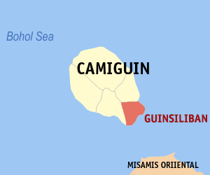 Map of Camiguin showing the location of Guinsiliban